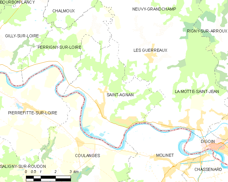 Map of French municipality